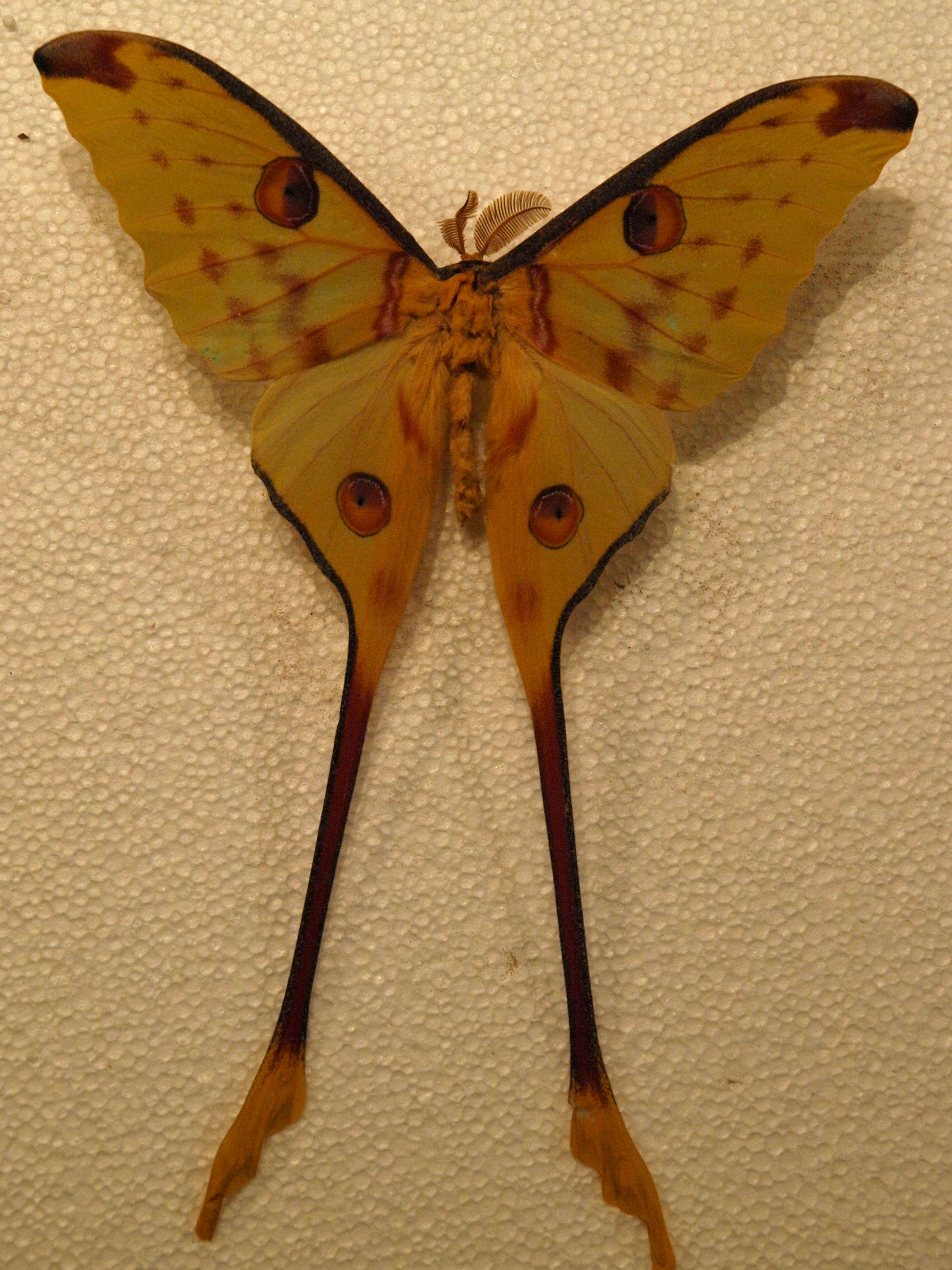 Male Argema mittrei (Saturniidae) from Madagascar. Ex own collection